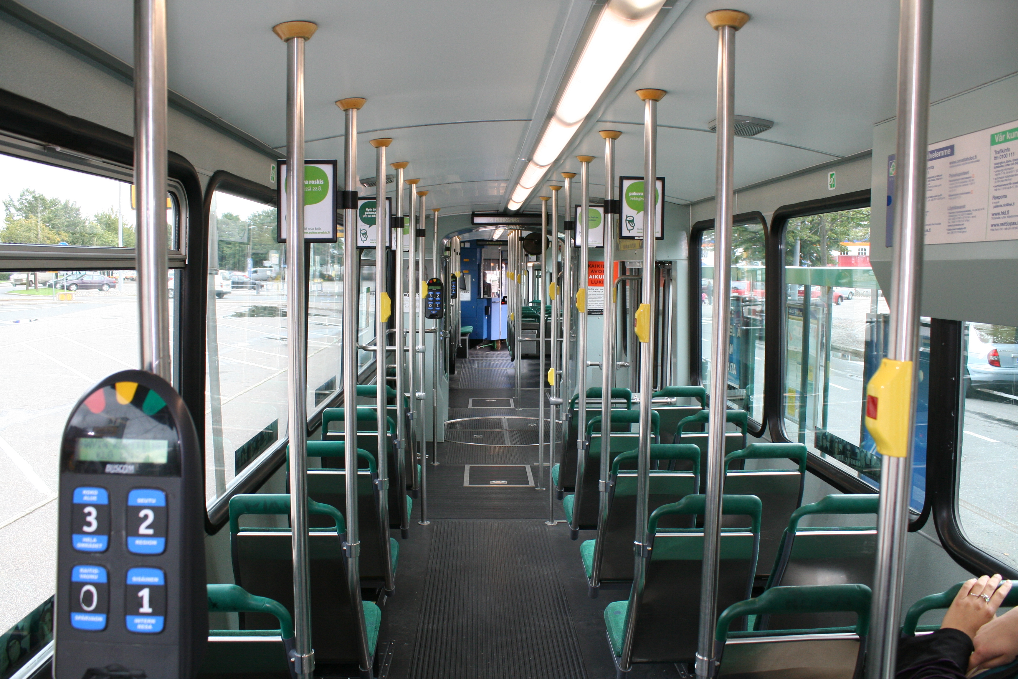 The interior of a Valmet Nr II tram used on the Helsinki tram system, following the modernisation process carried out on these trams between the years 1996 and 2005. Picture taken at the terminus for line 4T at Katajanokka ferry terminal.